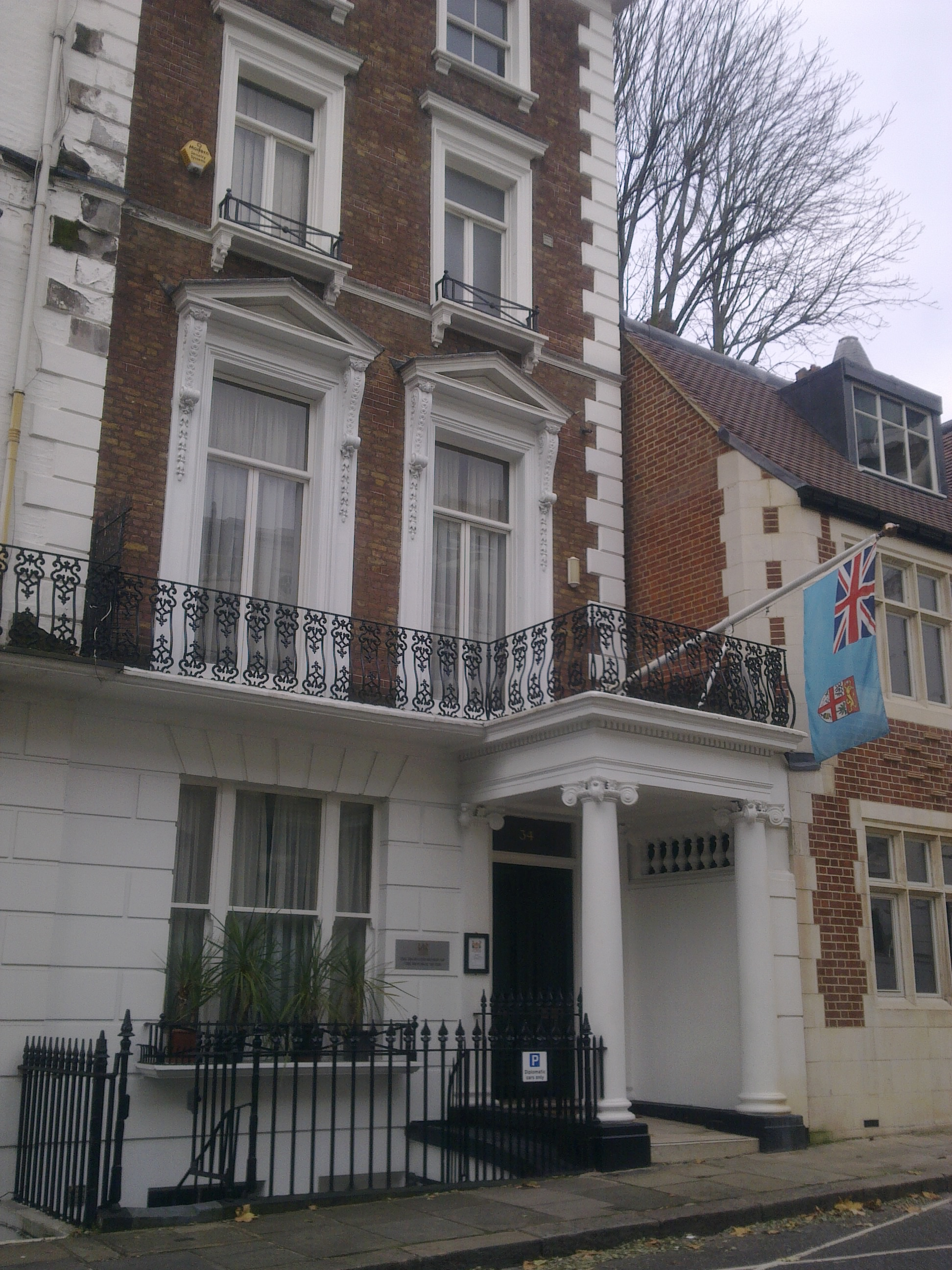 High Commission of Fiji in London 1